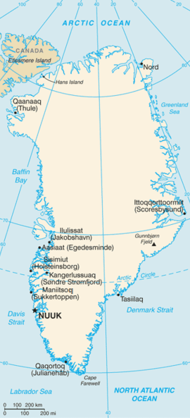 A map of Greenland, showing major towns.